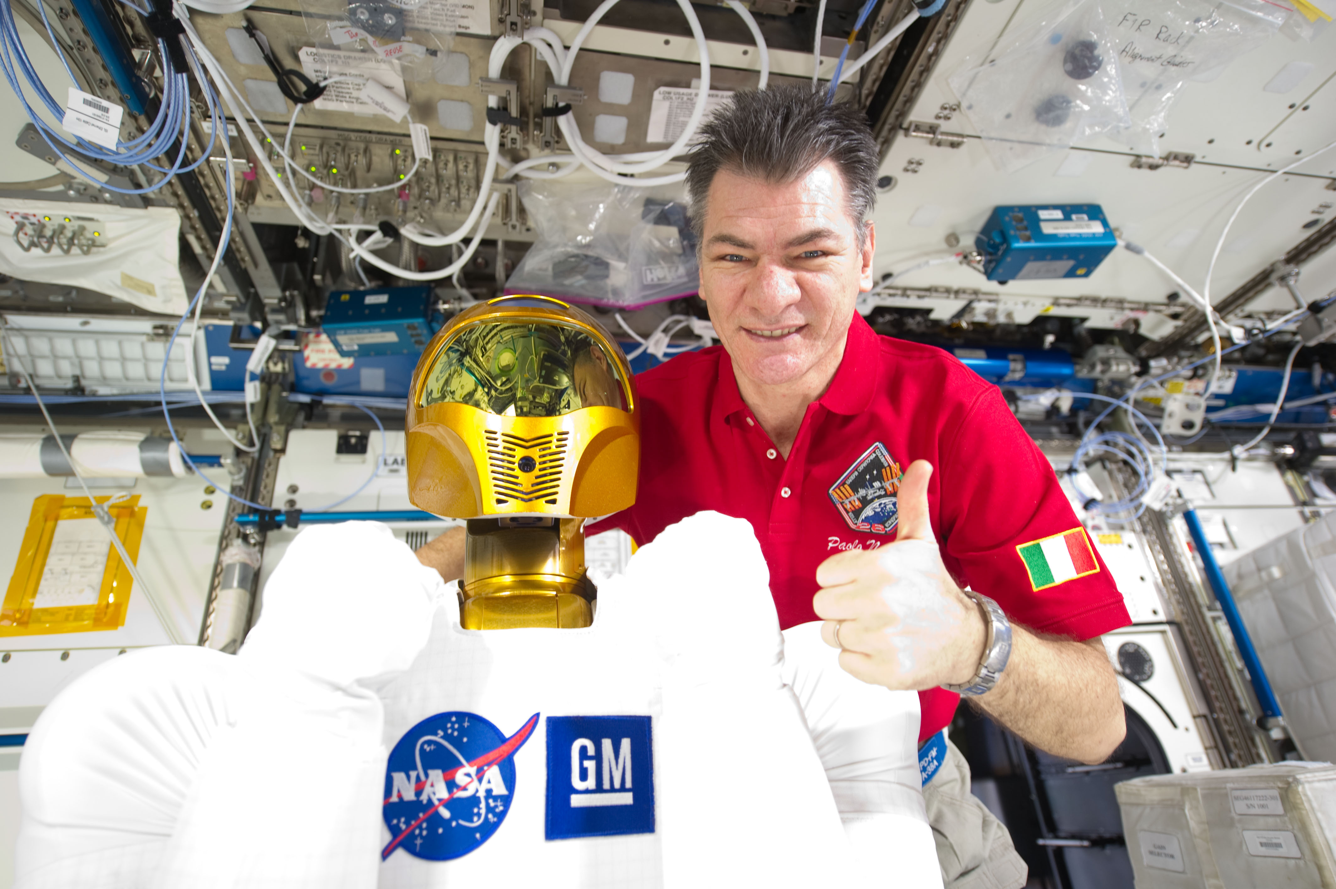 European Space Agency astronaut Paolo Nespoli, Expedition 26/27 flight engineer, poses with Robonaut 2, the dexterous humanoid astronaut helper, in the Destiny laboratory of the International Space Station.